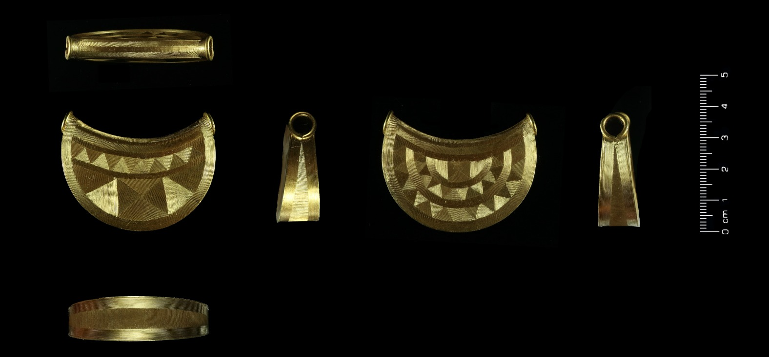 D-shaped, hollow gold pendant, created 1000 BC – 750 BC. Discovered in the Shropshire Marches by a metal detectorist, May 12, 2018